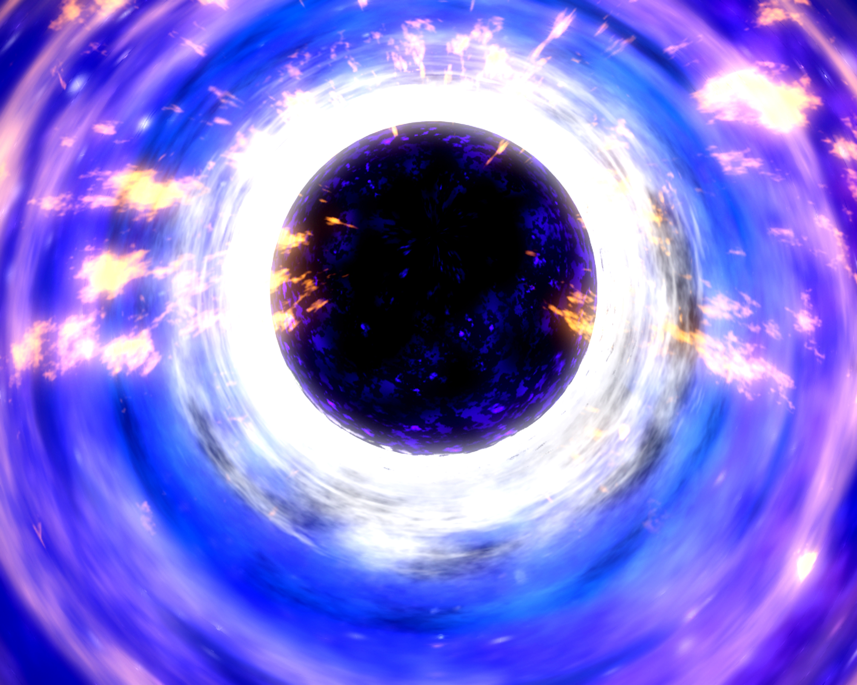 In this top-down illustration of a black hole and its surrounding disk, gas spiraling toward the black hole piles up just outside it, creating a traffic jam. The traffic jam is closer in for smaller black holes, so X-rays are emitted on a shorter timescale